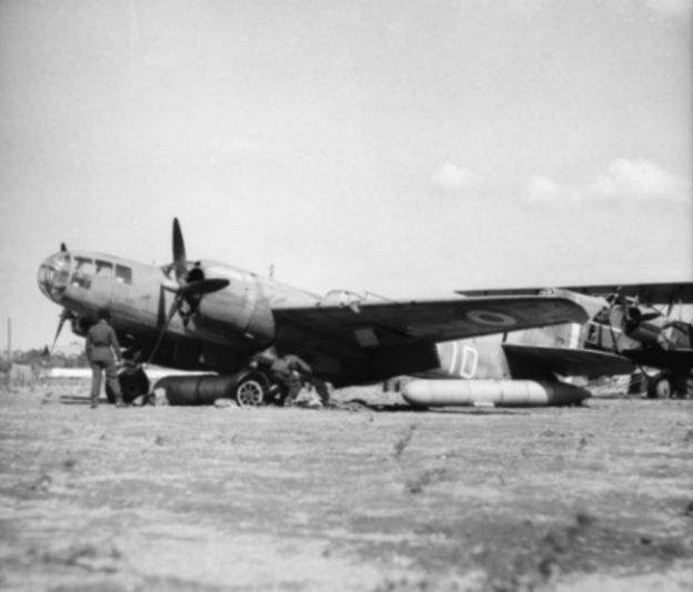 A captured French Martin 167F at Aleppo, Syria, in November 1941. This aricraft was later taken over by the Royal Australian Air Force.